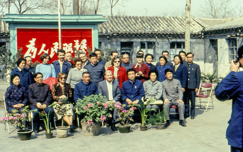 Visit to the People's Commune named Chinese-Hungarian Friendship by the Hungarian Ambassador